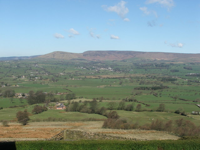 Loud Valley. A brilliant sunny but cold day in April 2006. Clear view across the Loud Valley to Chipping and Bowland Fells beyond.